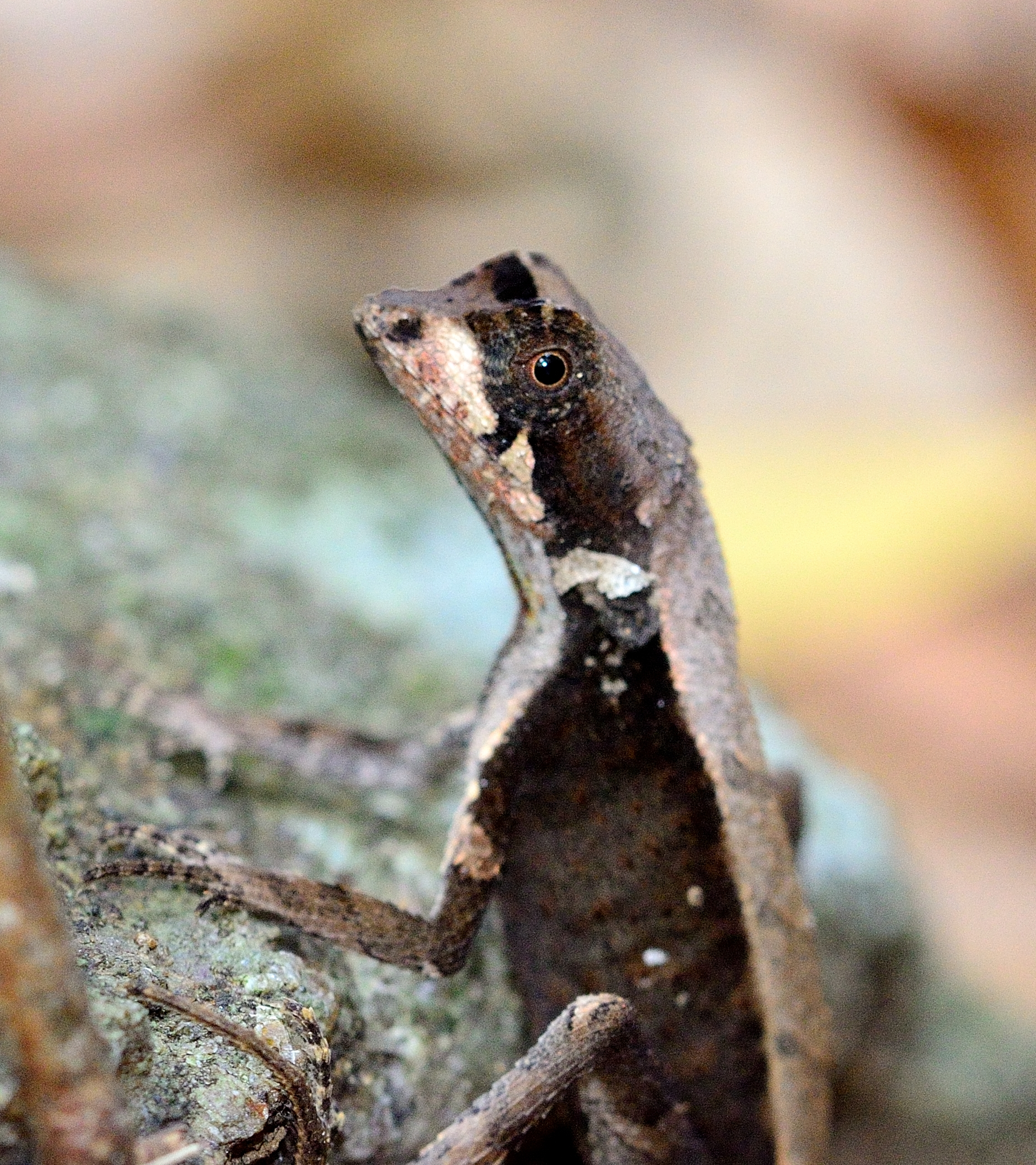 Otocryptis beddomii (Indian/Western Ghats Kangaroo Lizard)